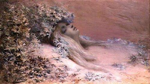 Ophelia in the Thistles - model Sarah Bernhardt.